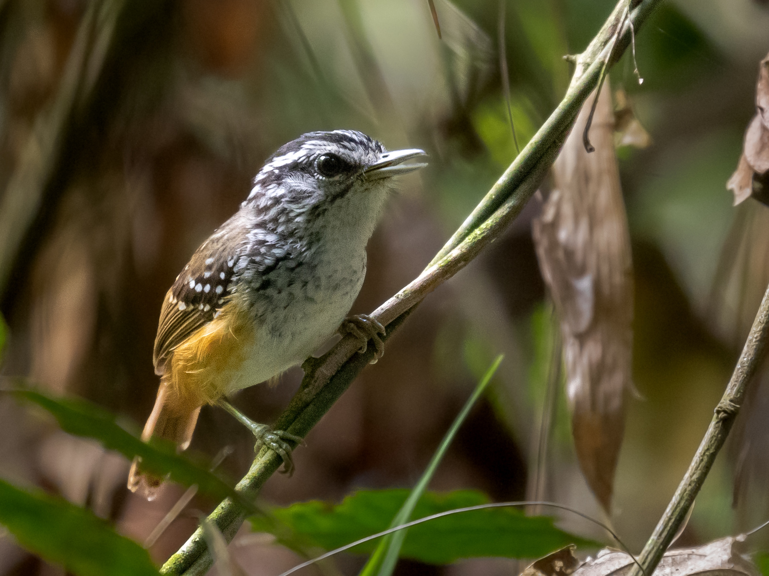 Spix's Warbling Antibird; Carajás National Forest, Para, Brazil